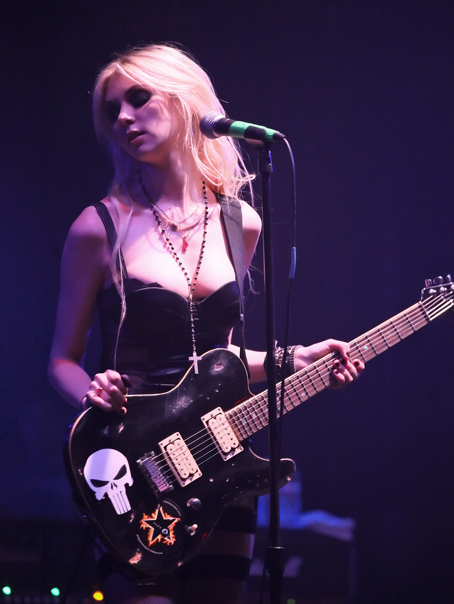 Taylor Momsen live on Warped Tour Kickoff.